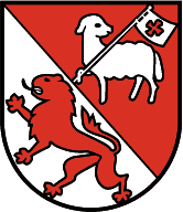 Source: "Fahnen-Gärtner GmbH, Mittersill" This file depicts a coat of arms. The composition of coats of arms are generally public domain with respect to copyright laws, and may be reproduced freely. This corresponds to the international traditional usage, and is explicitly stated in some national copyright laws. Some compositions, of more recent origin, may be copyrighted. This is not a valid license as such, being a "public domain" statement for the coat of arms definition only. It must be completed with the copyright tag associated to the picture creation. See Commons:Coats of arms for further information. Please note that this applies only to the coat of arms definition (composition / description). The representation of a coat of arms is an artistic creation, subject as such to copyright laws. Restriction of use - Legal notice: Most of the time, the usage of coats of arms is governed by legal restrictions, independent of the status of the depiction shown here. A coat of arms represents its owner. Though it can be freely represented, it cannot be appropriated, or used in such a way as to create a confusion with or a prejudice to its owner. Usage on Commons: Please provide licence information for the coat of arm representation, information for the author of the picture, and the source if not self-made work. This image is in the public domain according to Austrian copyright law because it is part of a law, ordinance or official decree issued by an Austrian federal or state authority, or because it is of predominantly official use. (§7 UrhG) To uploader: Please provide where the image was first published and who created it.